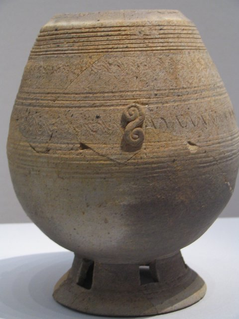 Mounted jar from Gaya dated to the 5th or 6th century.